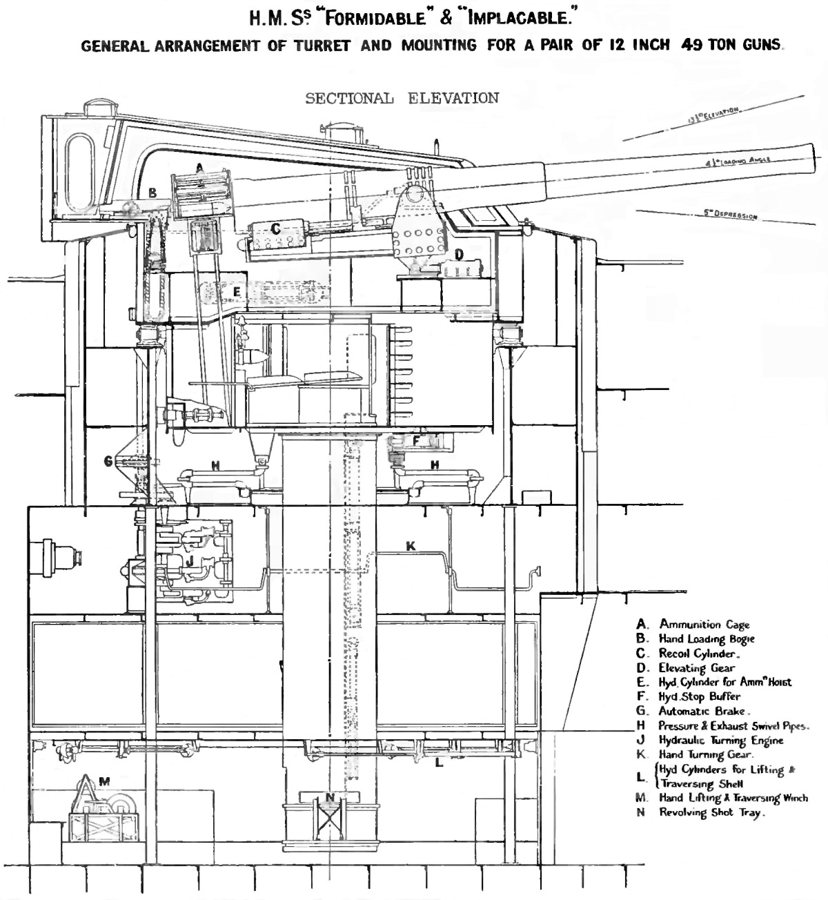 Right elevation diagram of 12-inch Mk IX gun turret of British Formidable class battleship. Guns are loaded at elevation of 4½°. A chain rammer is used.